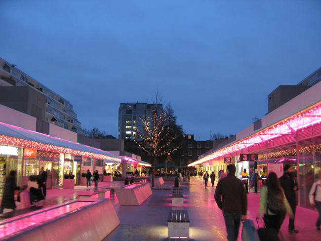 Photograph of the newly-renovated Brunswick Centre taken by me, Burnley on 2006-12-04